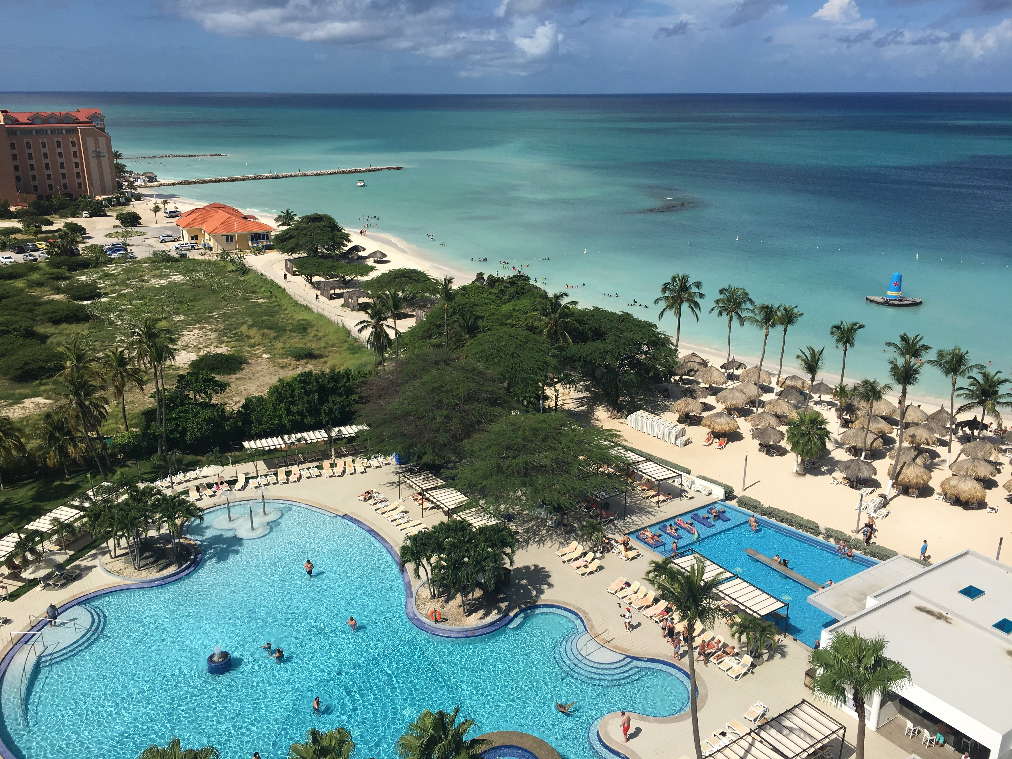 Image from 12th floor of RIU Palace Antillas in Aruba November 2018.